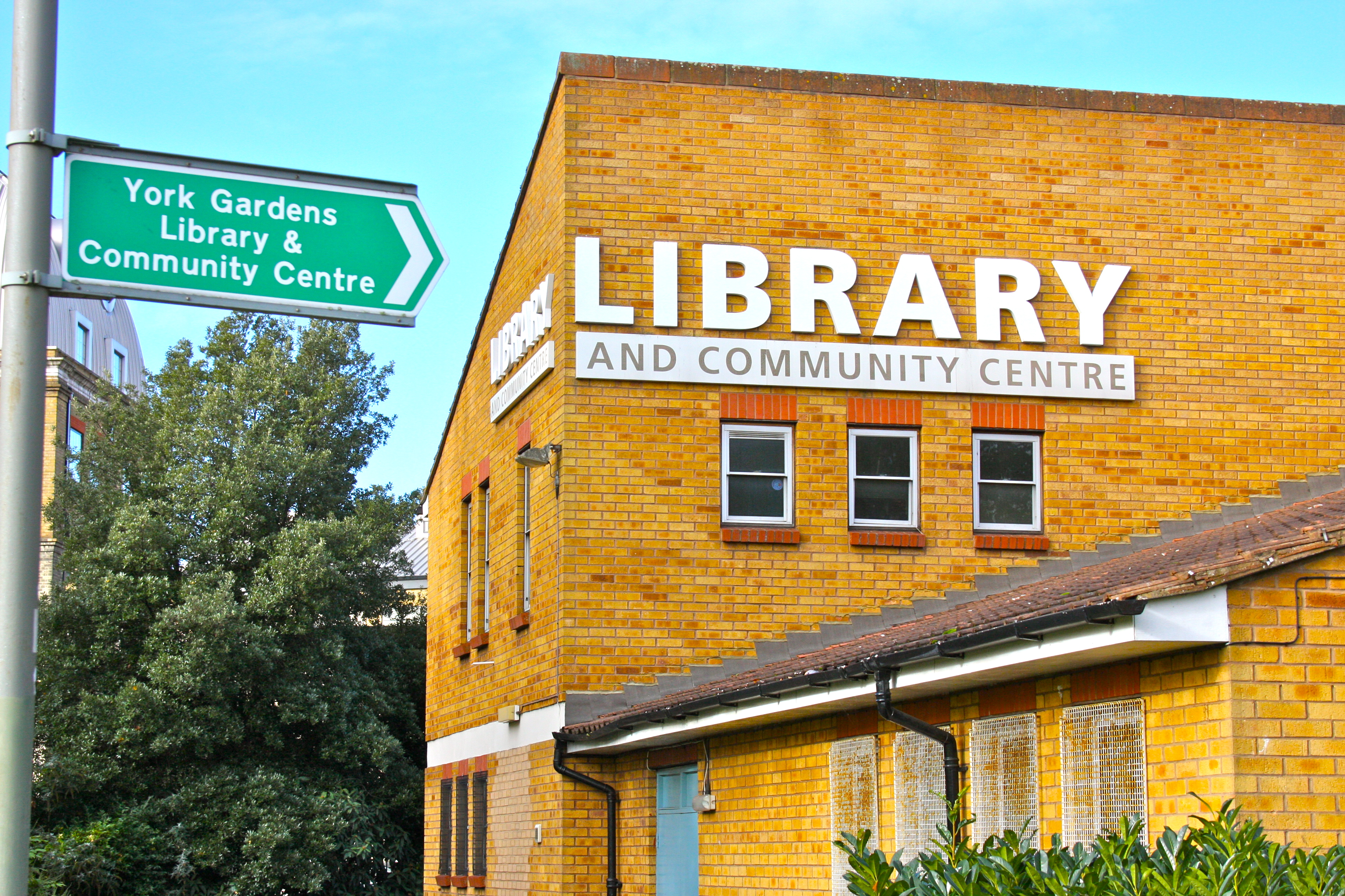 The Winstanley and York Road Estates in Battersea are due to be regenerated. These images uploaded for free use by local Labour councillor Simon Hogg